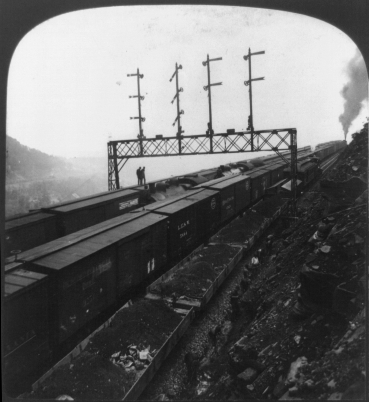 Four trains passing each other on the Pennsylvania Railroad near Horseshoe Curve. Original caption: "Four trains abreast--enormous traffic on the Penn. R'y, west of Altoona, Pa."